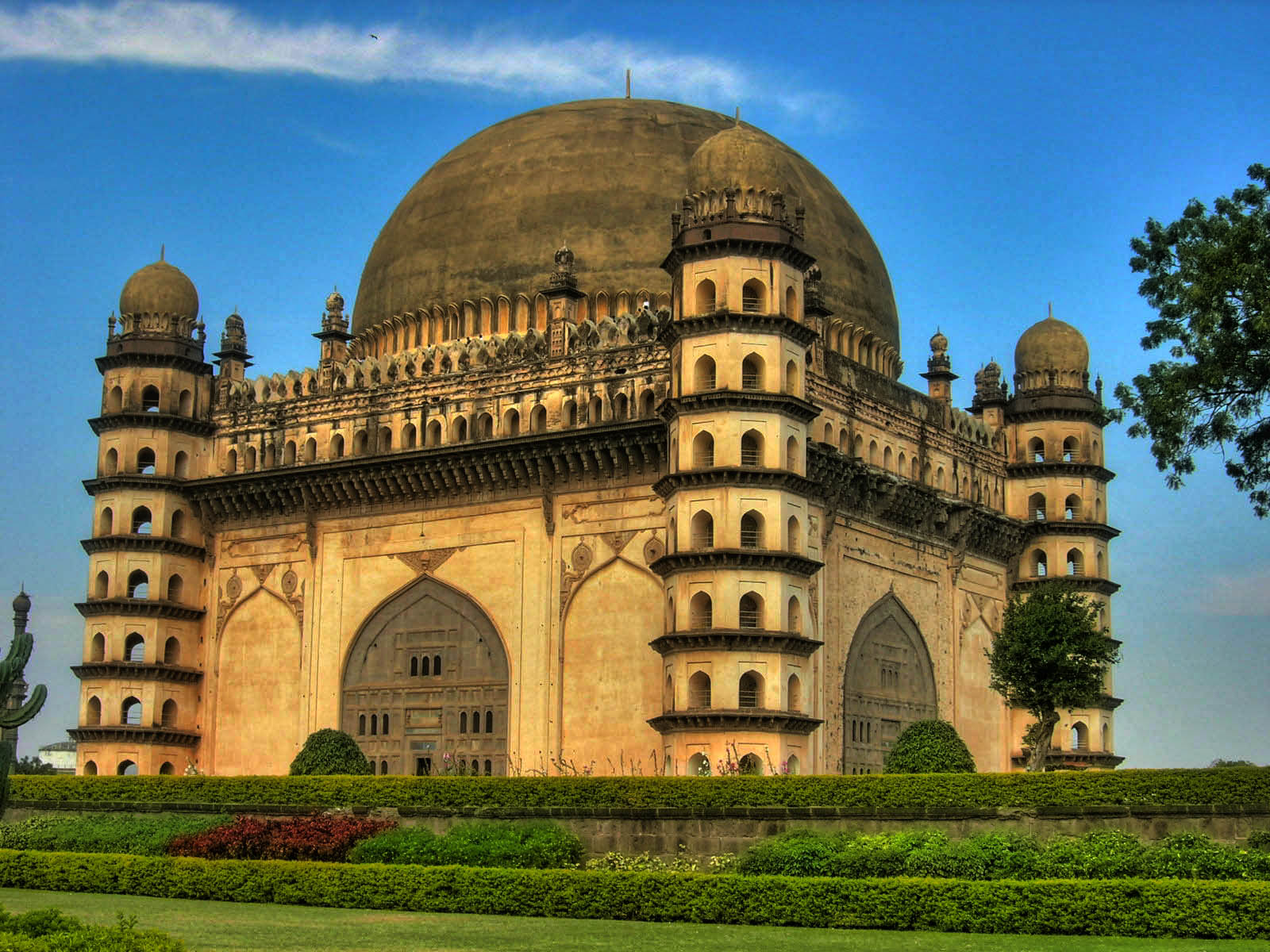 Gol Gumbaz is the mausoleum of Mohammed Adil Shah, Sultan of Bijapur. The tomb, located in Bijapur, Karnataka in southern India. Built in the year 1656 AD.